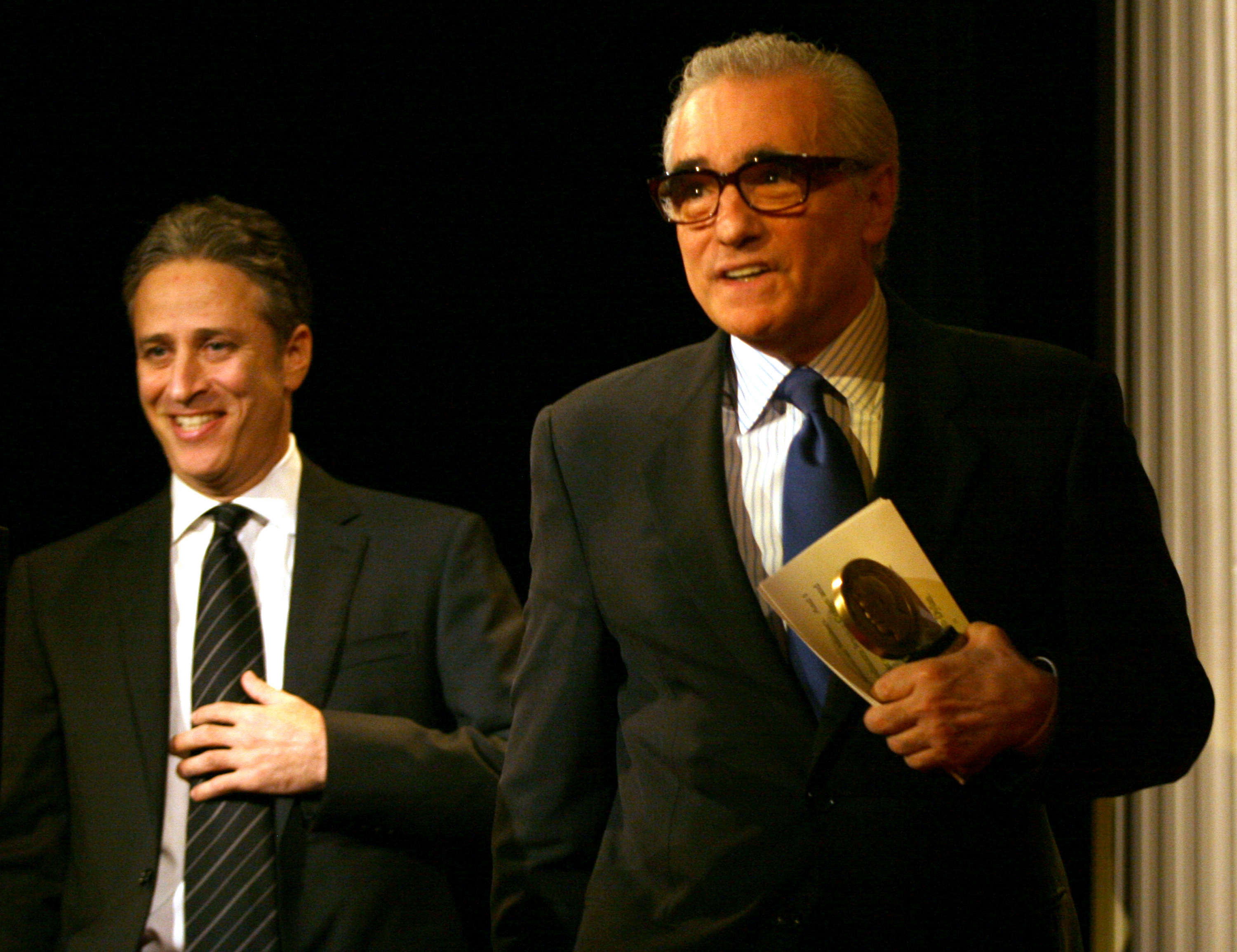 65th Annual Peabody Awards Luncheon Waldorf=Astoria Hotel New York, NY USA June 5, 2006